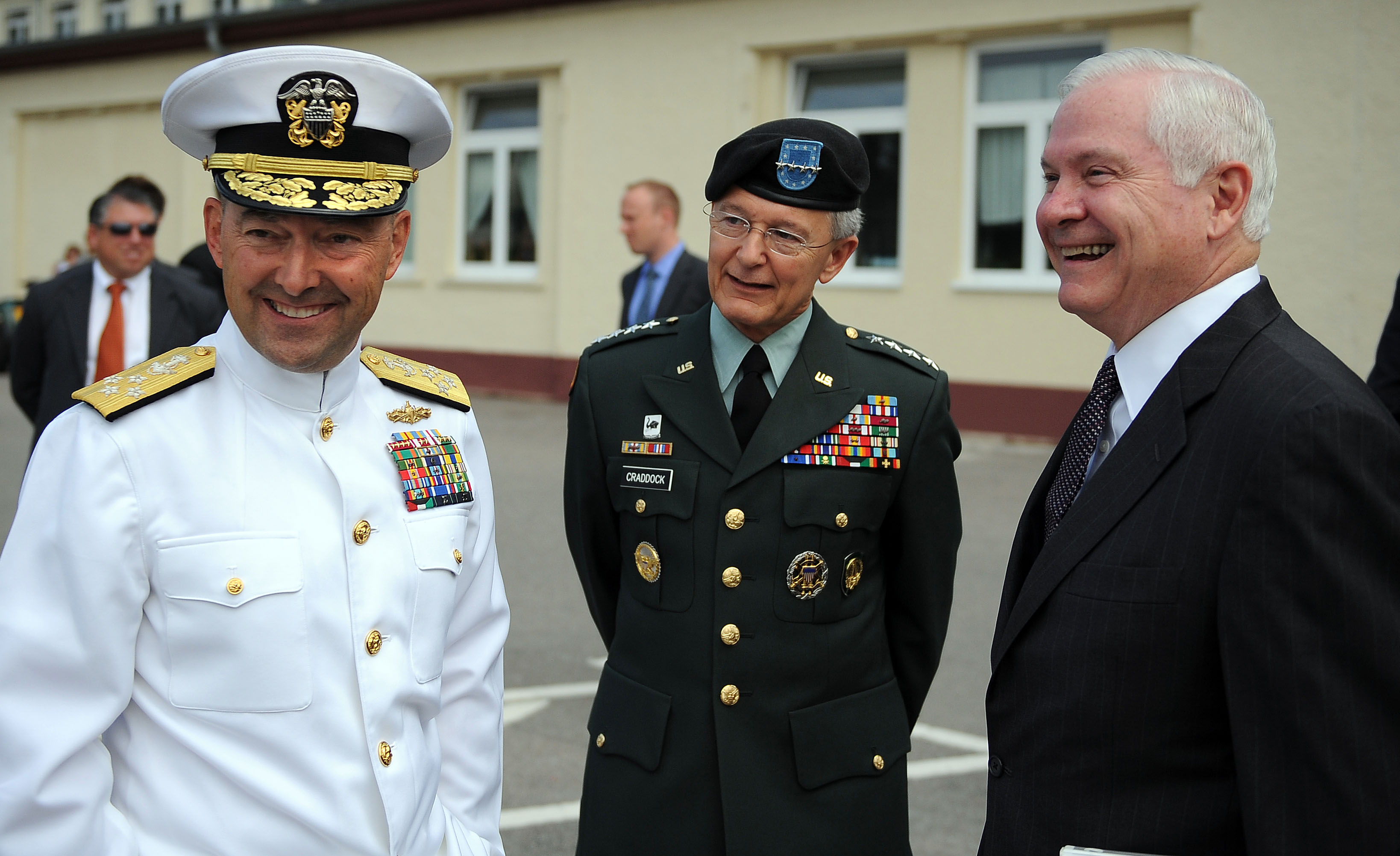 Incoming European Command Commander Adm. James Stavridis (left), U.S. Navy, Gen. John Craddock, U.S. Army, outgoing commander, and Secretary of Defense Robert M. Gates share a humorous moment prior to the change of command ceremony held at European Command Headquarters, Stuttgart, Germany, on June 30, 2009. Craddock is relinquishing command to Stavridis.